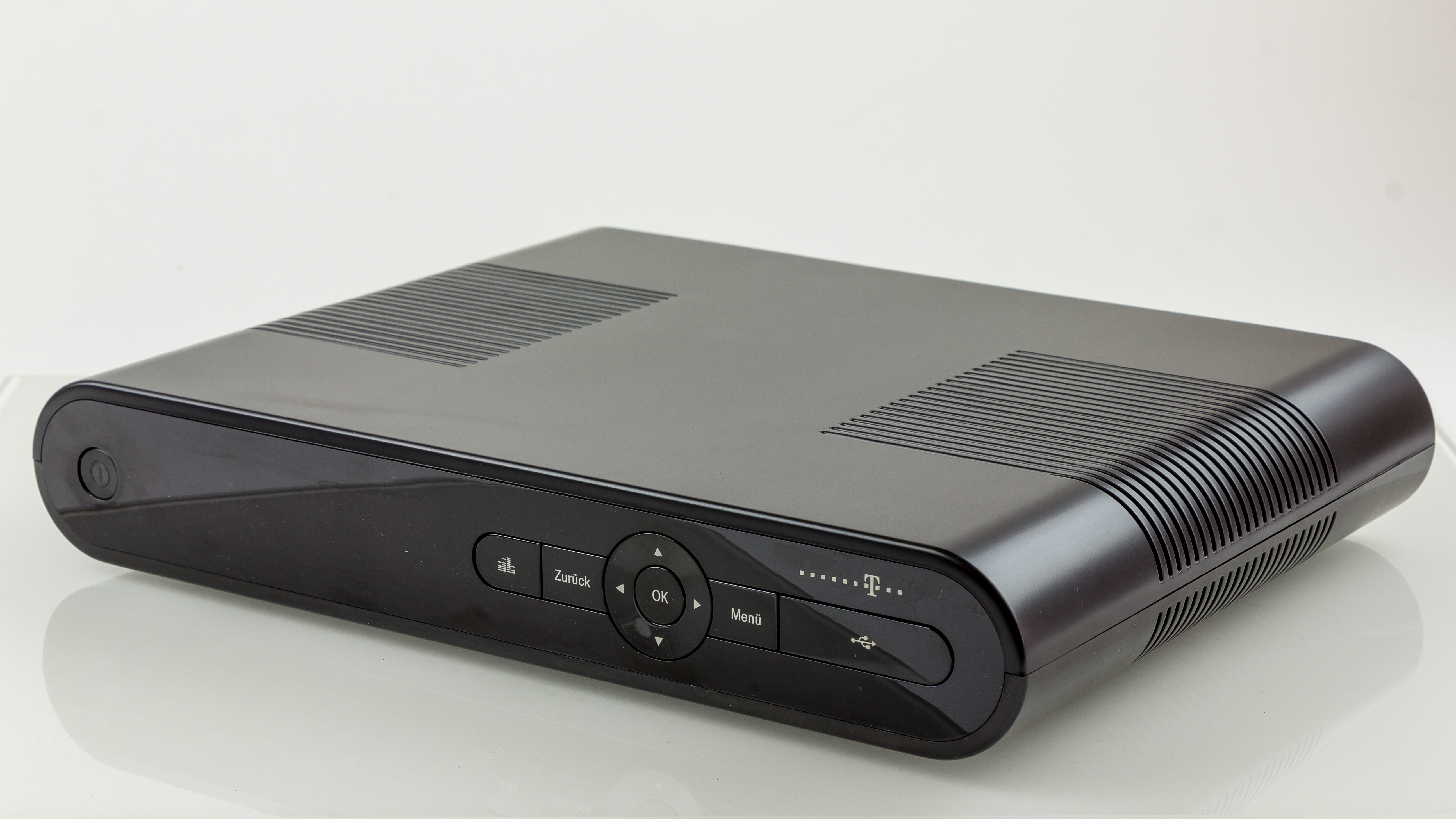 Deutsche Telekom Media Receiver 303 A